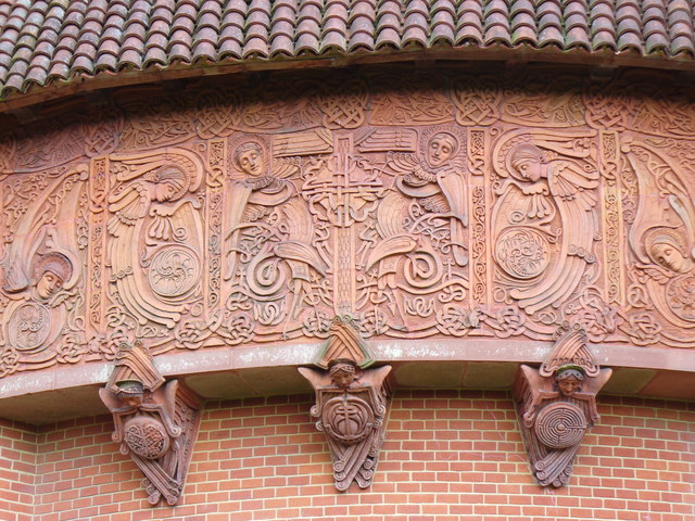 Watts Cemetery Chapel - Exterior Frieze This intricate terracotta frieze around the chapel walls symbolizes the "Path of the Just".